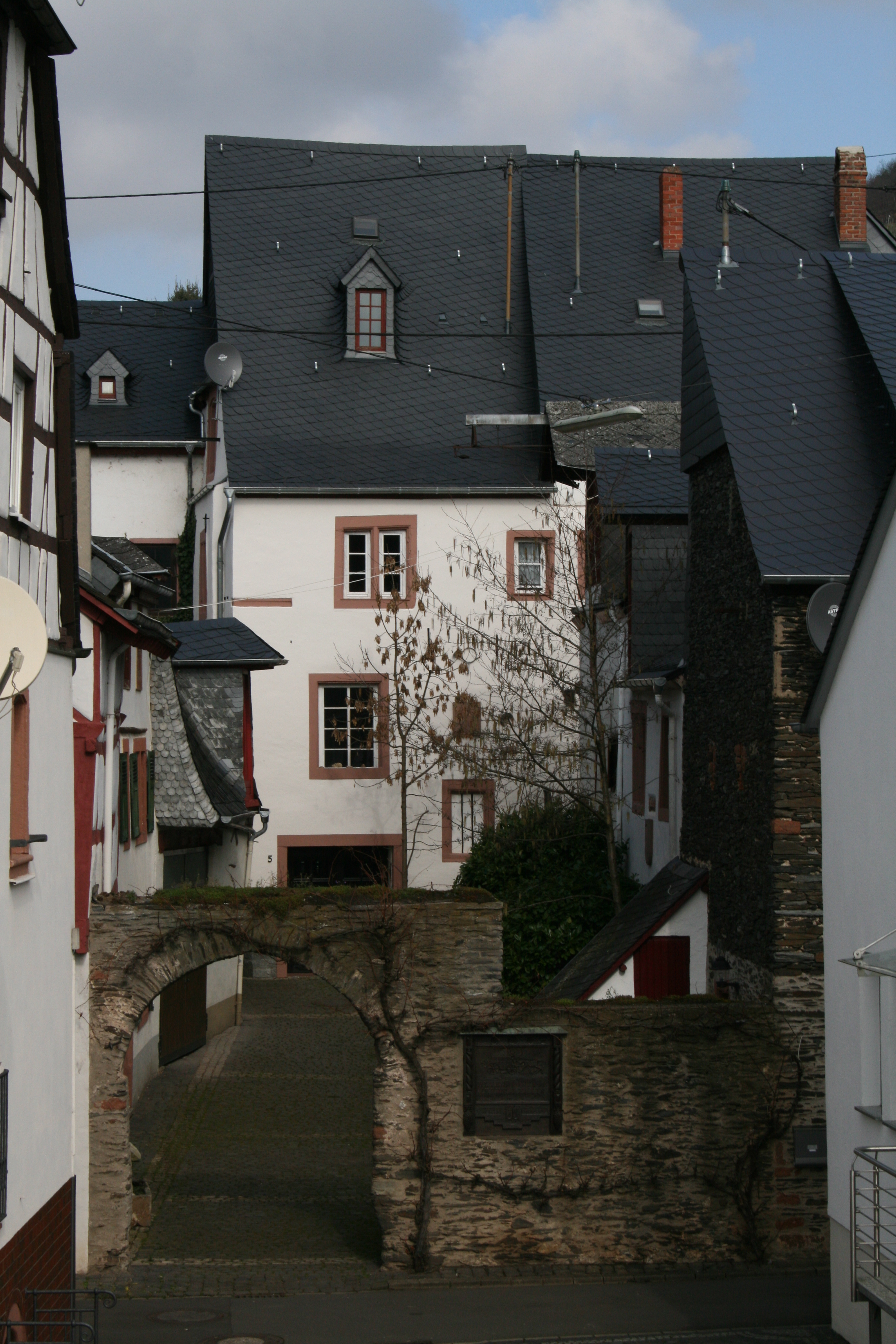 The ancient Posthof in Lieser